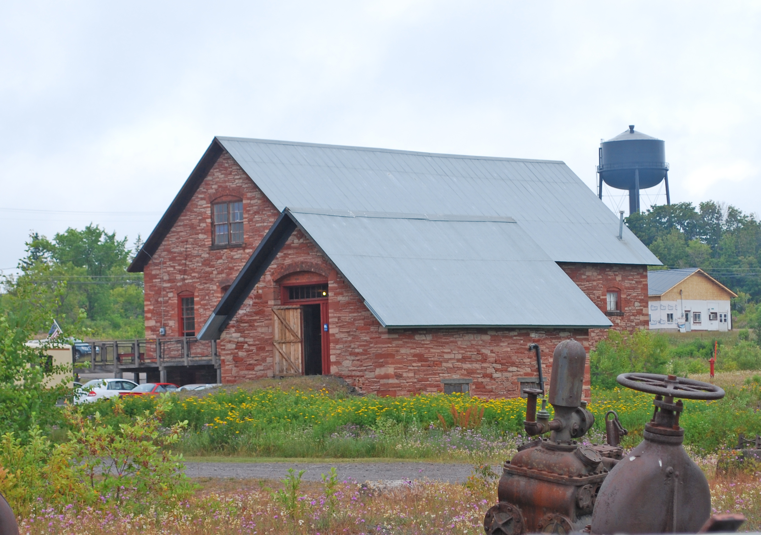 Quincy Mining Company Historic District Supply Office Powderhouse